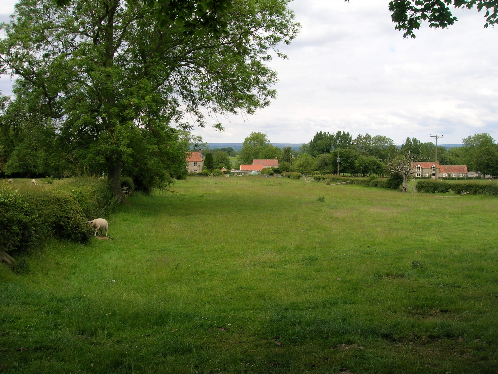 Grazing land, West Ness